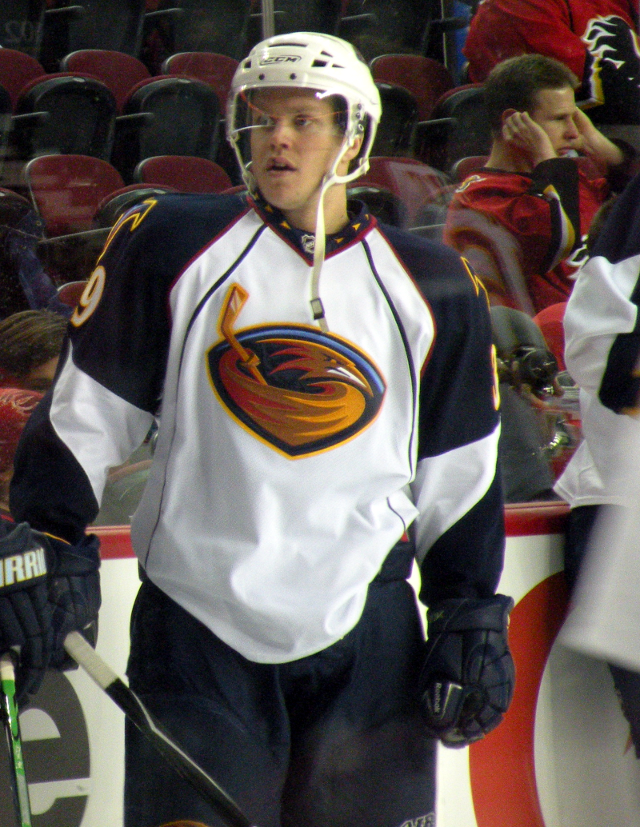 Atlanta Thrashers defenceman Tobias Enstrom prior to a National Hockey League game against the Calgary Flames, in Calgary.